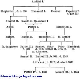 Genealogy tree of Ahimaaz ben Paltiel, a jewish poet of the Middle-Age.